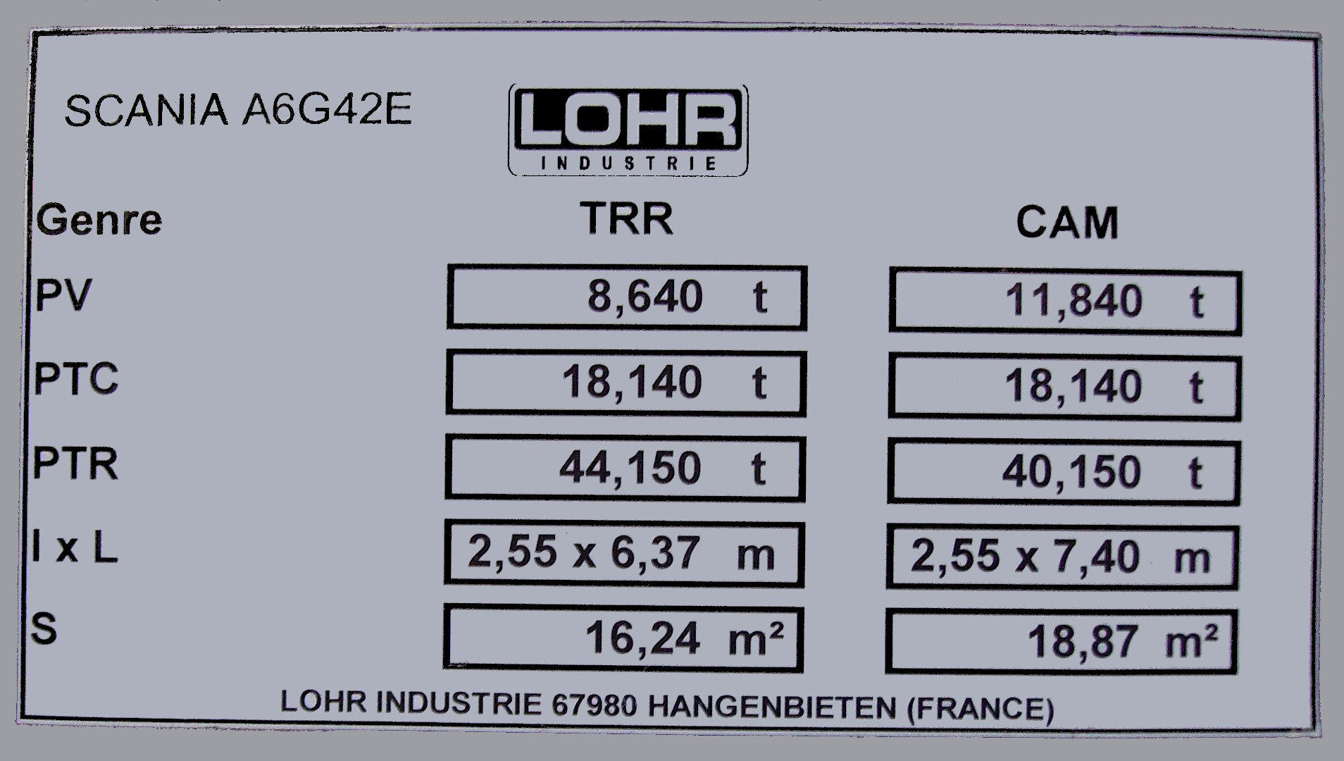 Specifications tablet on a Scania V8 truck (A6G42E typ: R Series) using a Lohr system (car transporter).